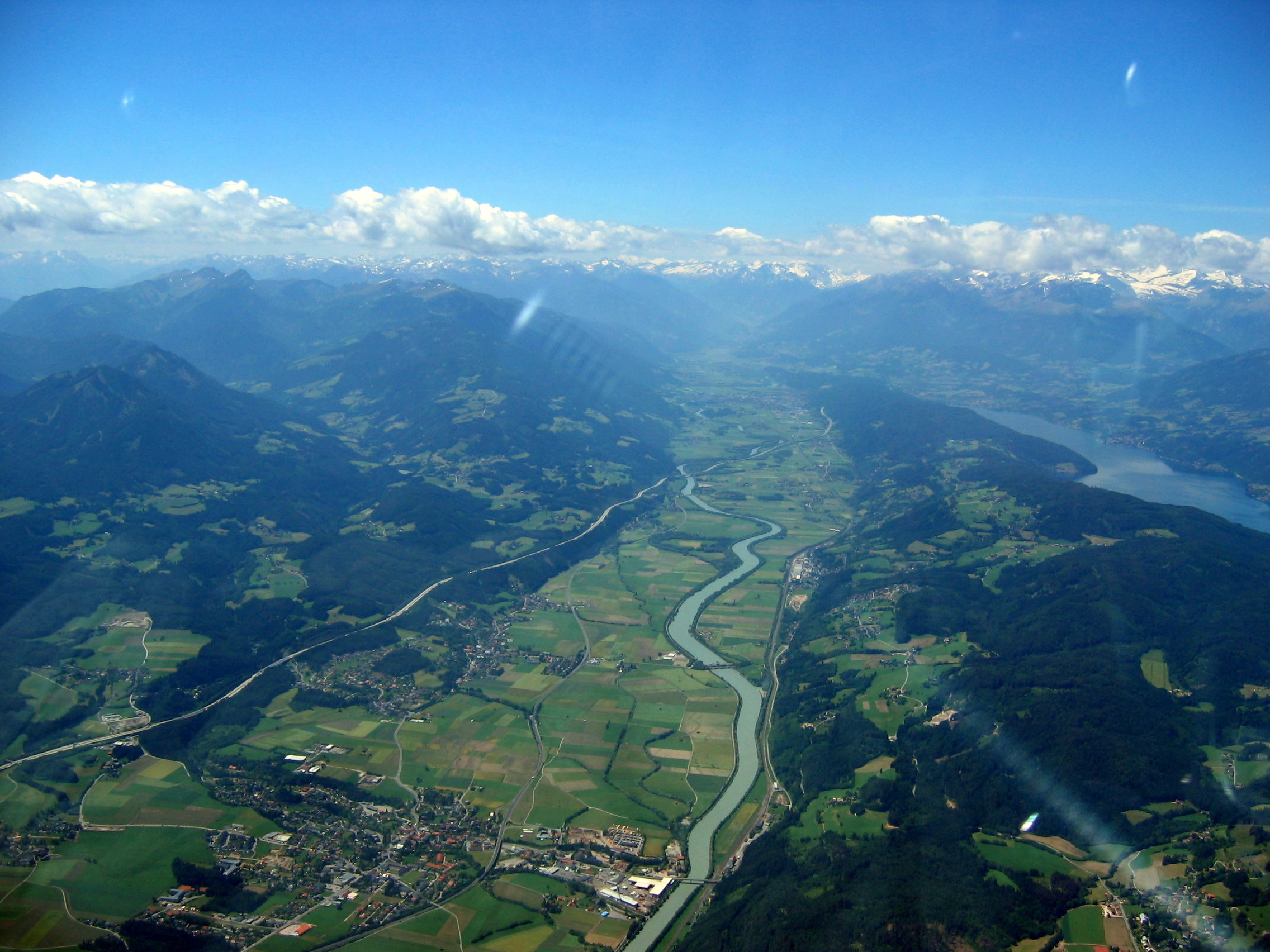 Lower valley of the Drava at the height of Lake Millstatt near Spittal an der Drau / Carinthia / Austria / EU. Seen from a glider (Diskus 2). Photograph at the height of Fresach.